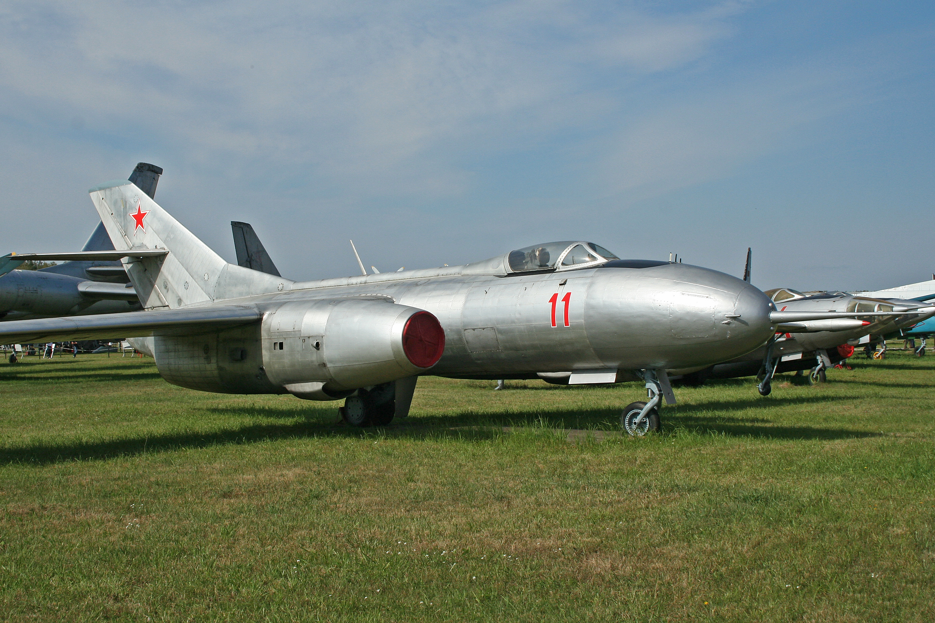 The Yak-25RV was a high altitude reconnaissance development of the Yak-25 interceptor. It had a straight wing which was double the span of the earlier swept wing aircraft. This was given the NATO codename 'Mandrake'. The RV-II was an unmanned drone conversion. It could be remotely piloted and was used for live firing interception practice. Just a guess, but I suspect that this one wasn't actually used for that purpose!! c/n 25992004. On display at the Russian Air Force Museum. Monino, Russia. 13-8-2012